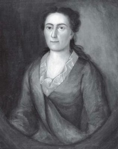 Sarah Pierpont Edwards , mystic and wife of Rev. Jonathan Edwards, by John Badger ca. 1740